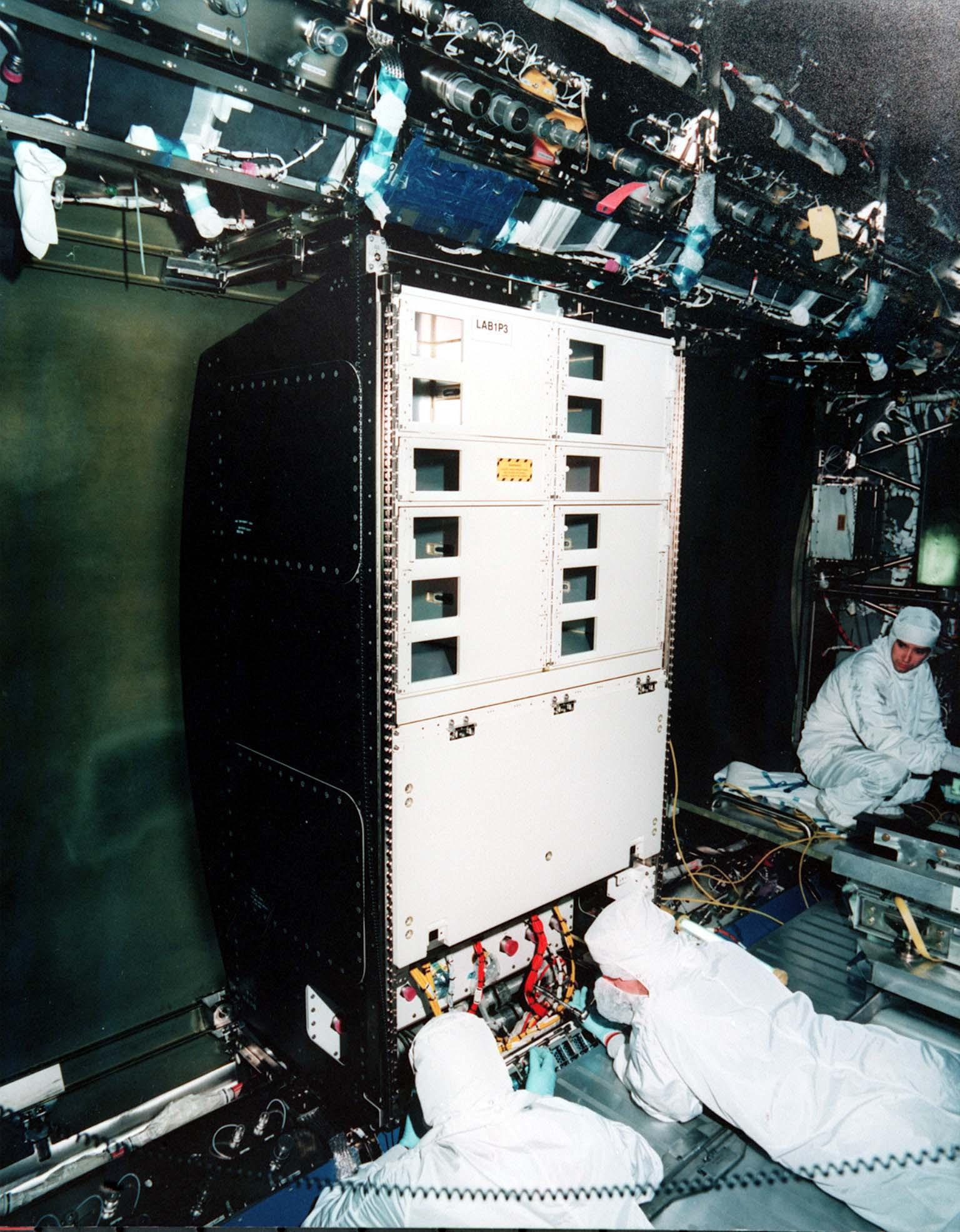 The first system rack for the U.S. laboratory module for the International Space Station is installed recently as Boeing technicians at NASA's Marshall Space Flight Center, Huntsville, Alabama, make final connections at the bottom. The rack, about the size of a closet and weighing almost 1,200 pounds, is the first of two which will supply electrical power to the scientific racks inside the laboratory module. Clearly visible above the rack is one of the four "stand-off" structures inside the lab which provide the electrical connections, data management systems, cabling for air conditioning ducts, thermal control tubes and other systems for the space station’s racks. When the laboratory module is in orbit, it will have a total of 24 racks, 13 of those containing science experiments. The other 11 racks will provide power, temperature and humidity control, air revitalization and other support systems for the science racks.